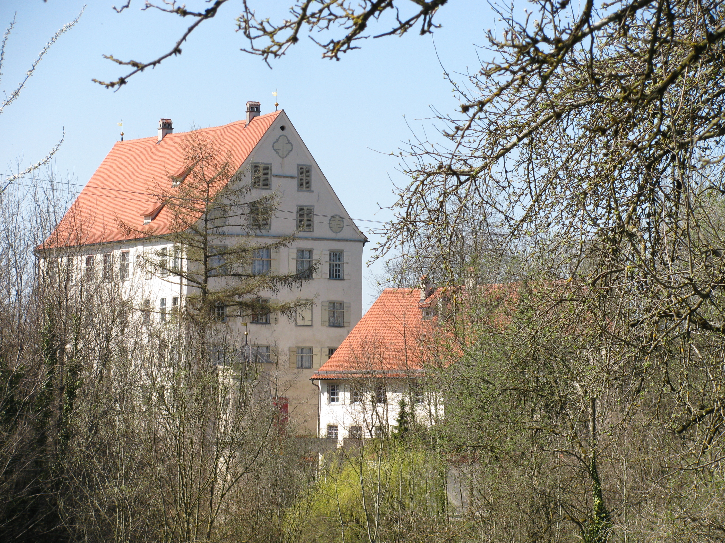 Germany - Baden-Württemberg - Ravensburg (district) - Achberg: 'Schloss Achberg'